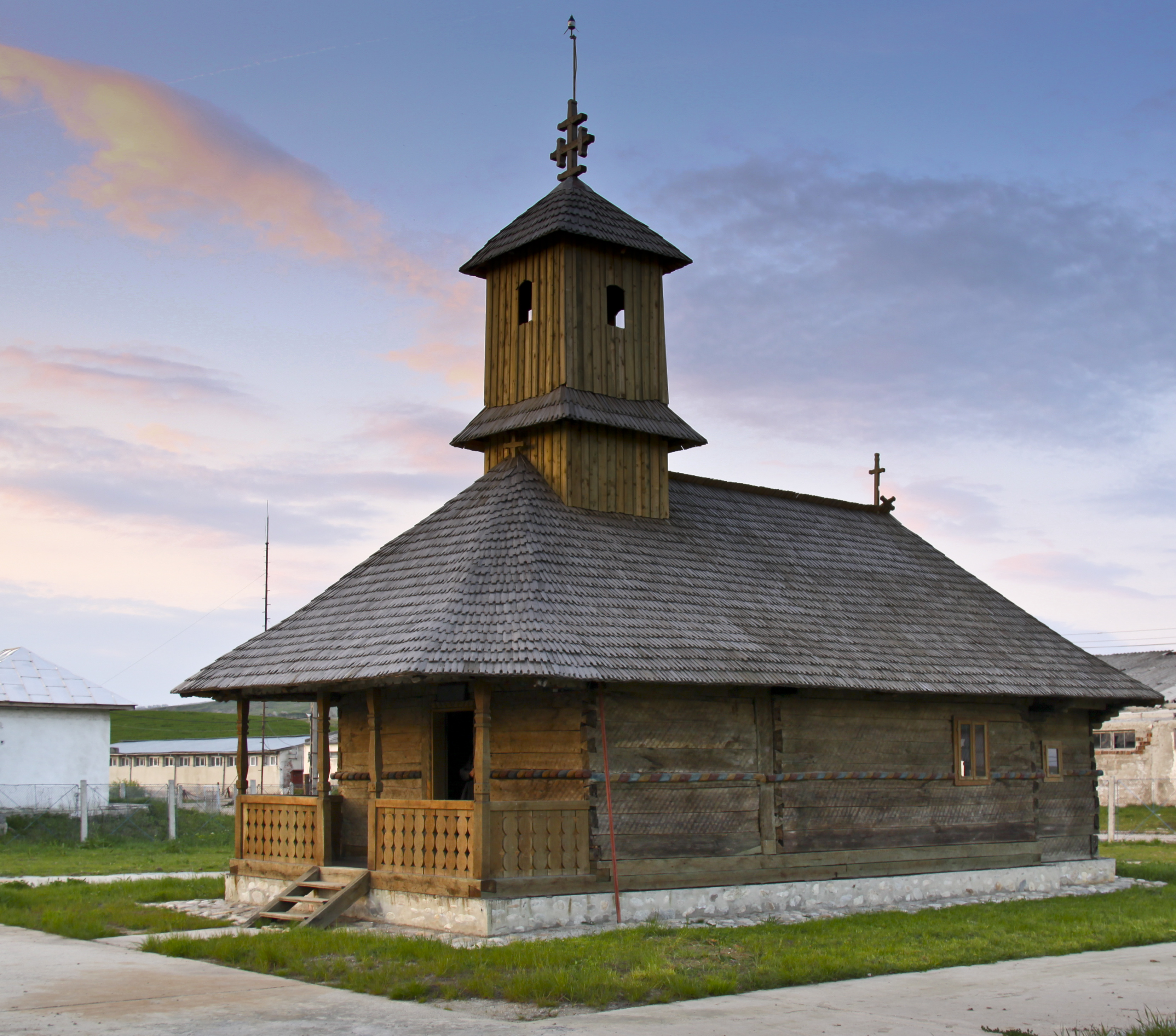 Valea Mare (Berbeşti), Vâlcea county, Romania: the wooden church.